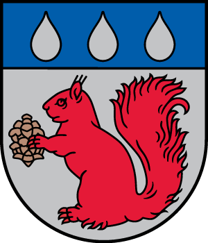 Coat of arms of Baldone Municipality, Latvia. “Argent a squirrel Gules holding a pine cone in its colour under a chief Azure charged with three gouttes Argent.”